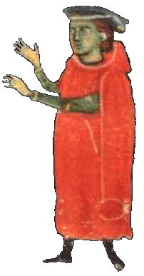 Peire Cardenal from troubadour MS I. Lombardy, 13th century, now in the Bibliothèque nationale de France, Paris, as BN f.f. 854.